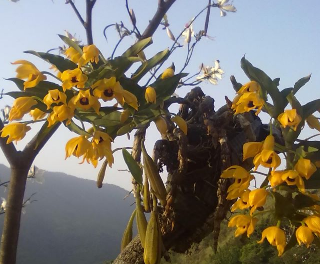 Orchid